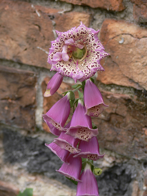 A peloric flower of Digitalis purpurea (common foxglove) in a private garden in Folkingham, Lincolnshire, UK.